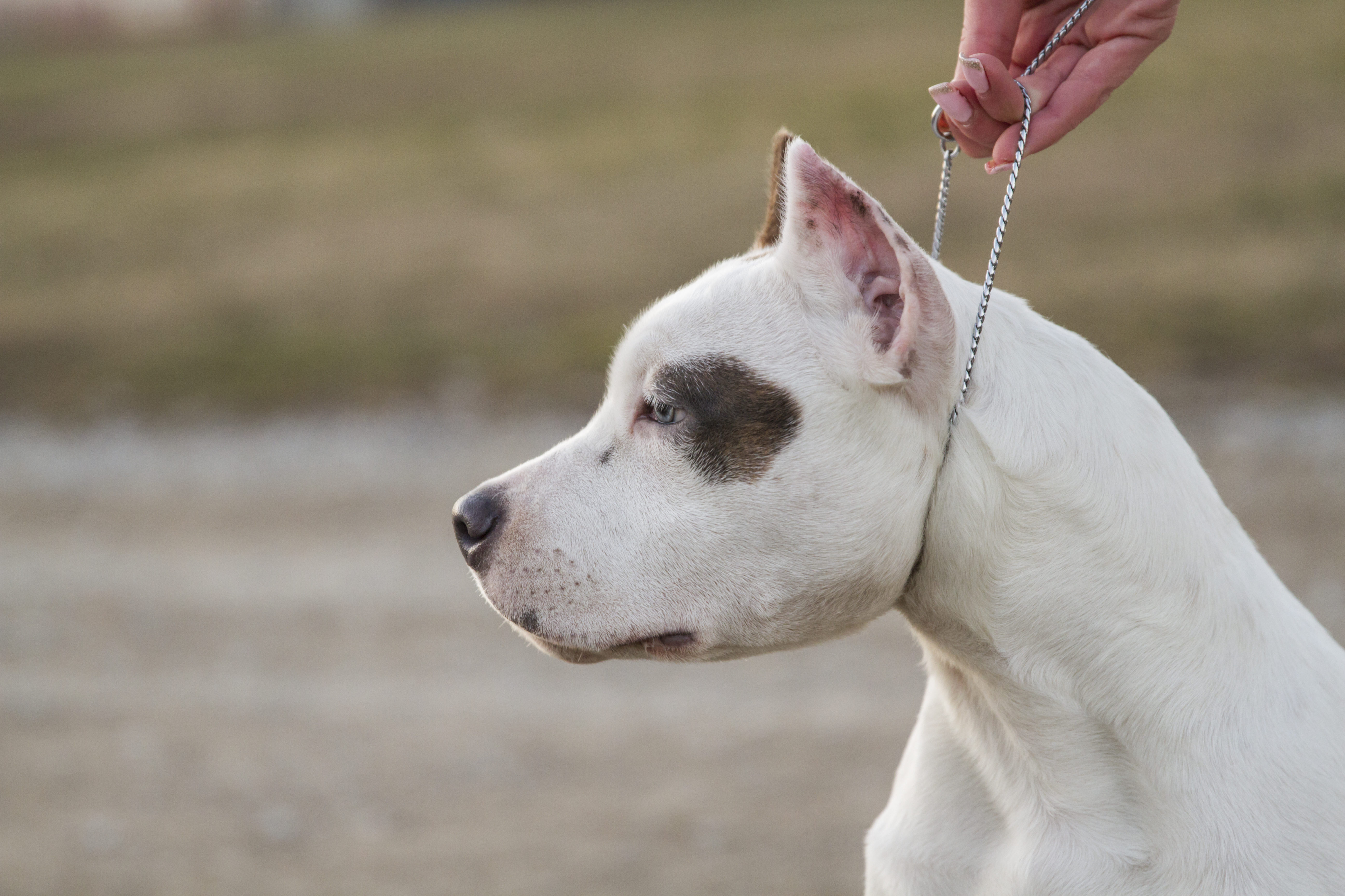 American staffordshire terrier female head